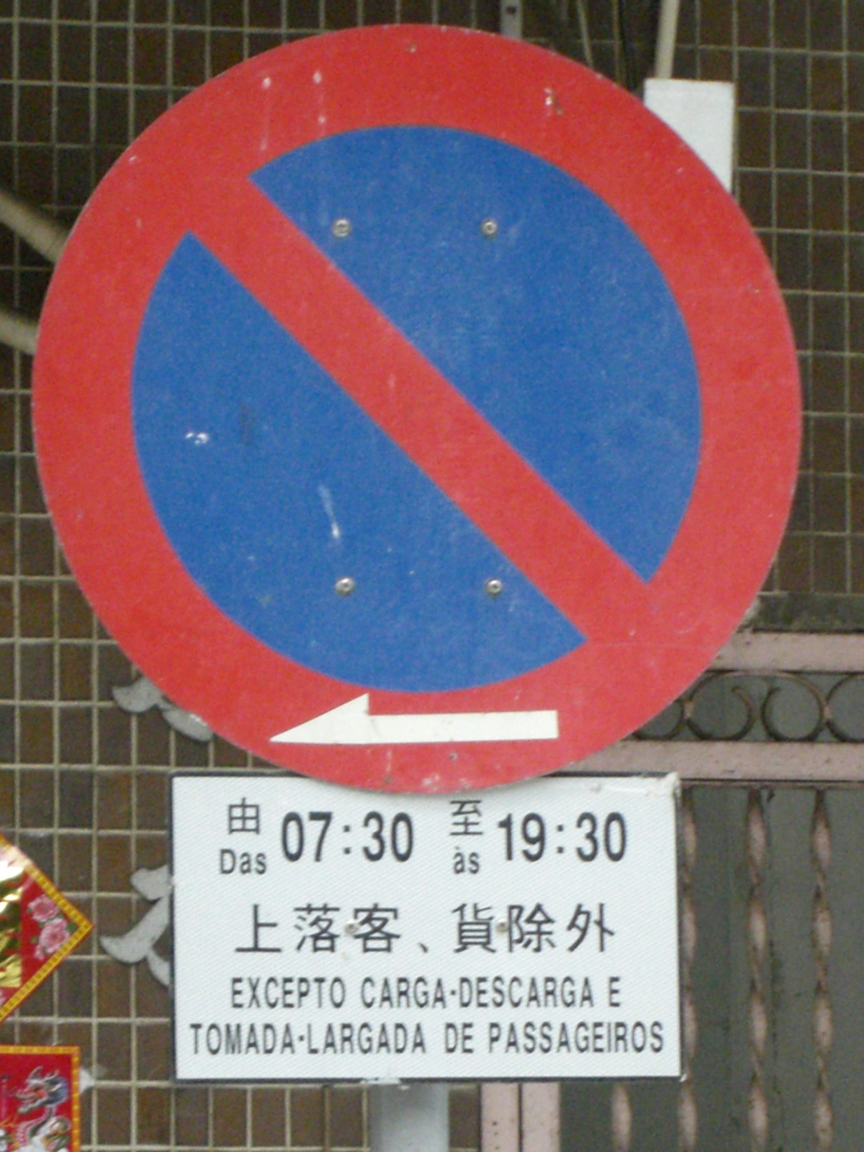 A "No Parking" Sign with a supplementary sign accompanied in Macau